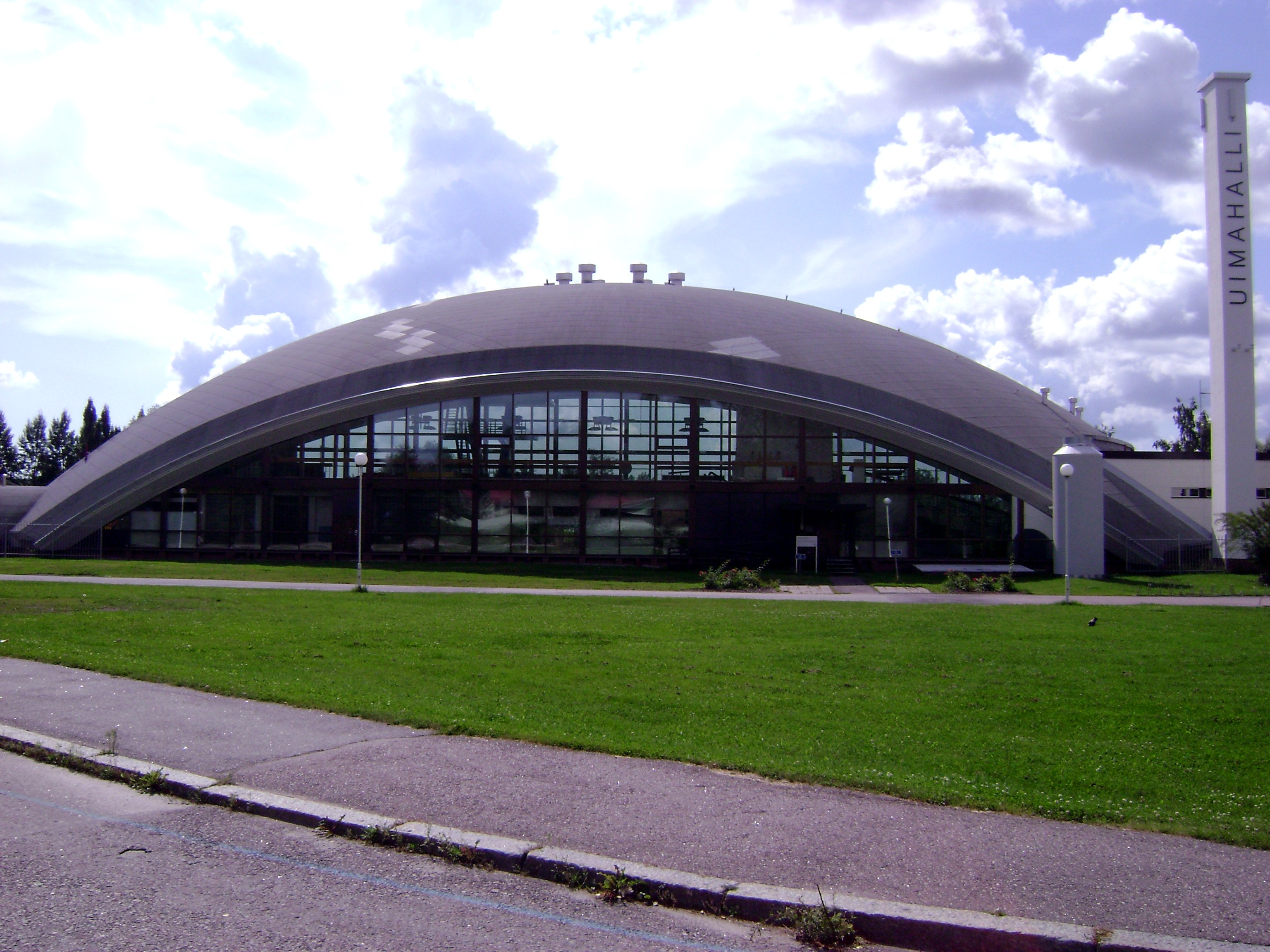 Tikkurila swimming hall in Tikkurila major district of Vantaa.